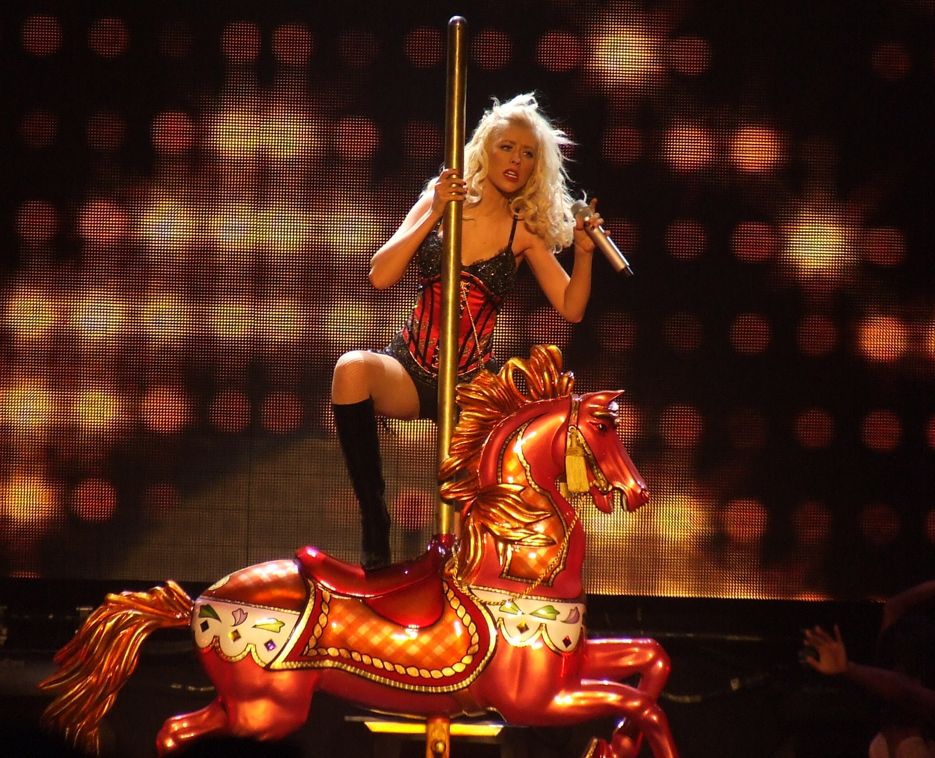 Christina Aguilera performing "Dirrty" on the Back to Basics Tour